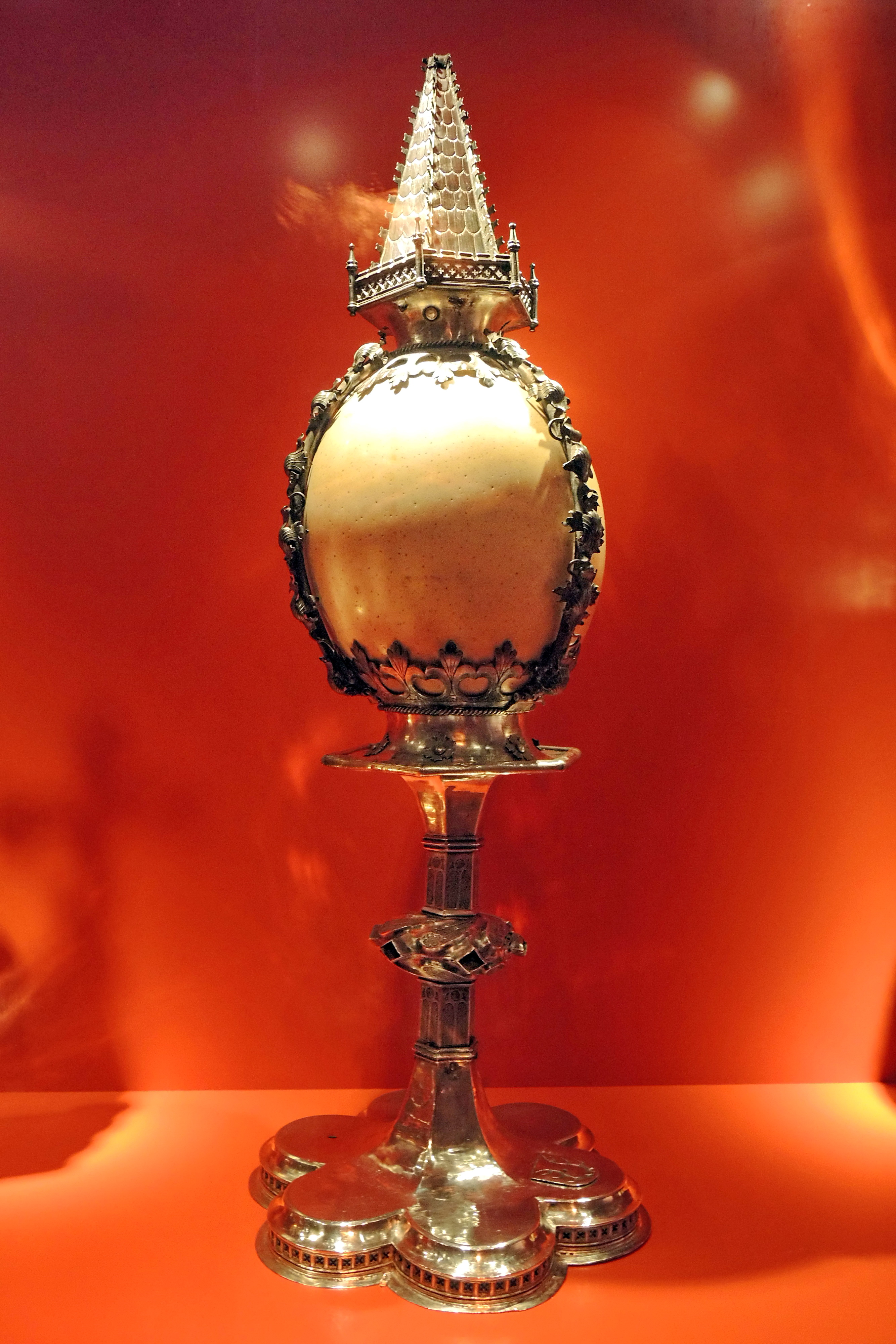 Collection of the Stadtmuseum in Rapperswil : Gothic reliquary, estimated to be property of Countesse 'Elisabeth Mätsch' (Counts of Toggenburg), 1440, church treasury of Stadtpfarrkirche St. Johann' respectively former Rüti Abbey. Spätgotisches Straussenei-Reliquiar um 1440. Am Knauf M-A-T-S-C-H (Elisabeth Mätsch †1442, Gemahlin von Friedrich VII (†1436) von Toggenburg. Laut Zettel nach Bruch geflickt. «Anno. 1725. ist diss Ey durch den Sigristen Hanss Baltasar Büoller ohn Verstähens ab dem Altdar in boden gefelt worden, und in 54. Stückhlin zersprungen, undt alda Stückhlin uf'behalten worden drey sindt aber volkomen verlohren gangen. Anno 1727 sind von Herren Custer Herr Sebastian Ziegler die ohvermelte 54. Stückhlin dem Mahler Joseph Antoni Hunger übergeben, welche er wider Zuosam in ein Ey gericht im Mertzen , und wider in silbriges gefäss eingericht, welches nebet anderen 24 Stückhen Silber aus der Sackharstey gestollen worden den 22. Hornung 1727. Und durch sonderbaren Schickhung Gottes .inert 17.Tagen bekomen alss ist wider von den Goldschmiden frisch uss gebutz worden, uf den heiligen Tag Ostern als den 13.April den Altdar Zierung schön gestalt und gesehen worden, ich Mahler Hunger gab das Ey wider als schier wie gantzer von handen den 9.April 1727. geben, diss imskünftig Zum nachricht.»